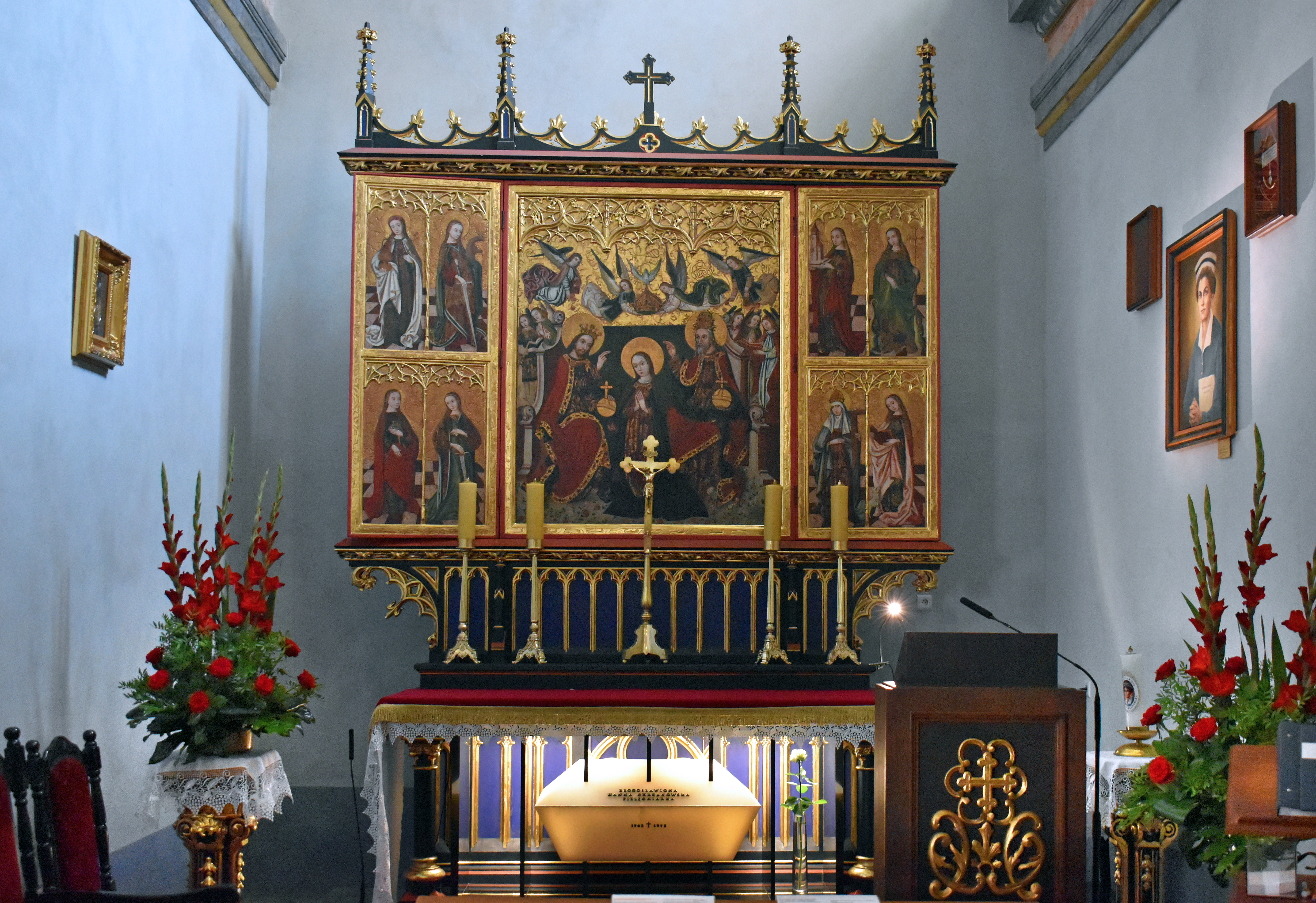 Saint Nicholas Church, pentaptych, confession of blessed Hanna Chrzanowska, 9 Kopernika street, Kraków, Poland